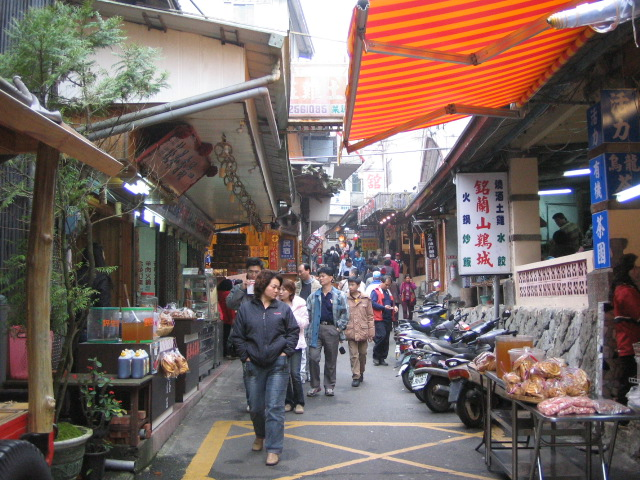 Fencihu Old Town